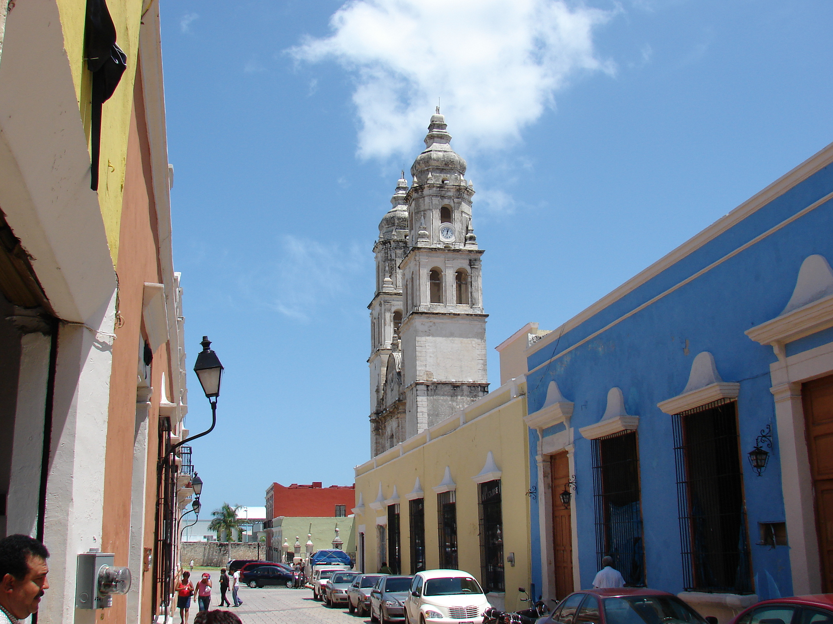 Picture of the Cathedral of Campeche took over 12 street in downtown of Campeche City, Campeche, Mexico.